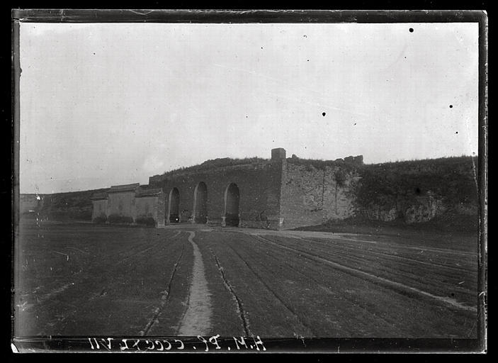 Duan Li Men gate, Xi'an, 1907